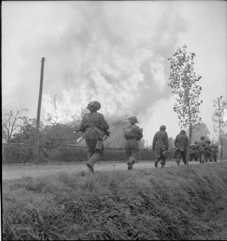 The British Army in North-west Europe 1944-45 Infantry of 51st Highland Division, supported by Daimler armoured cars of 2nd Derbyshire Yeomanry, pass a burning house in St Michielsgestel, during the drive on Hertogenbosch, 24 October 1944.